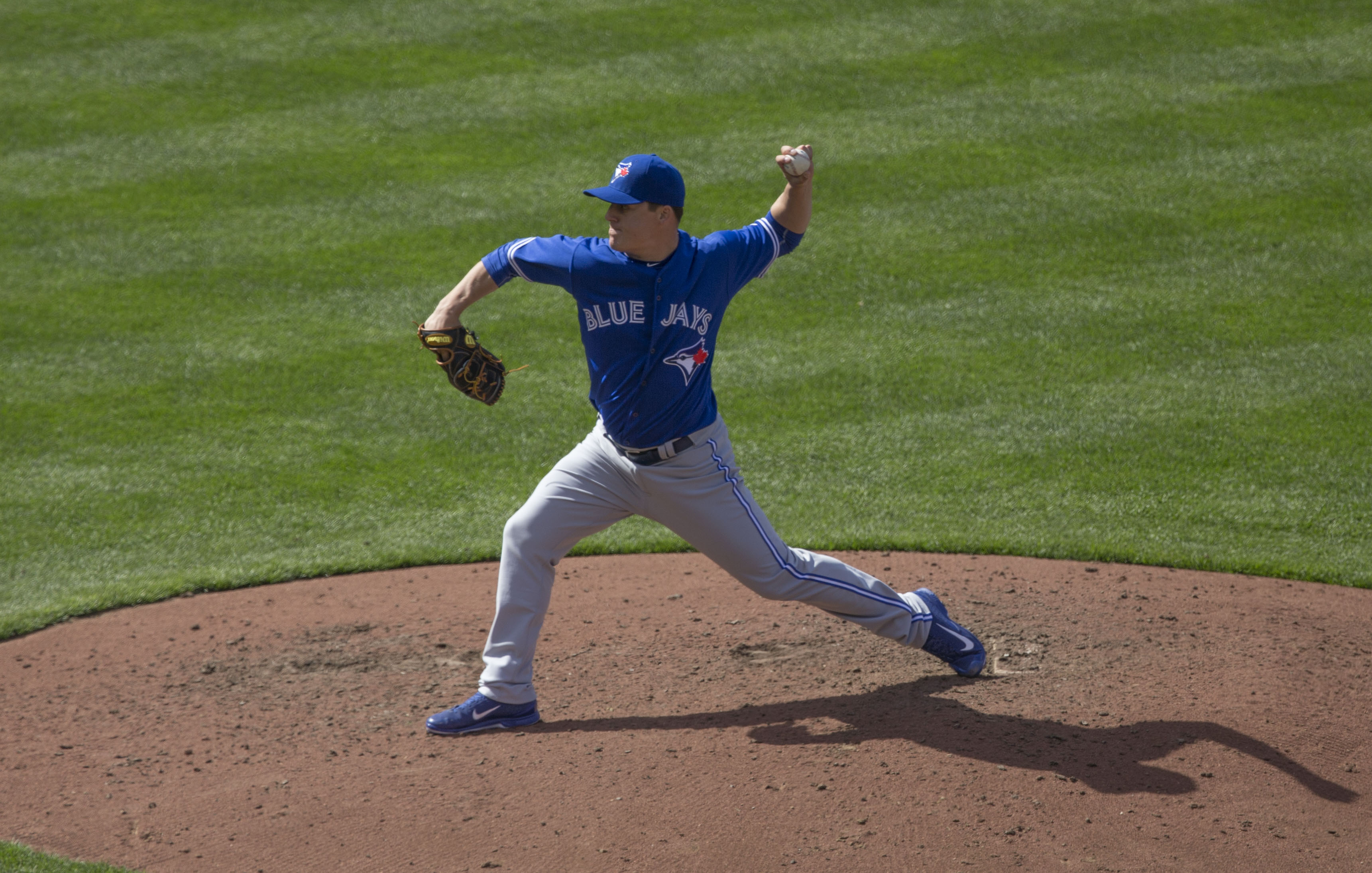 Blue Jays at Orioles 04/12/15